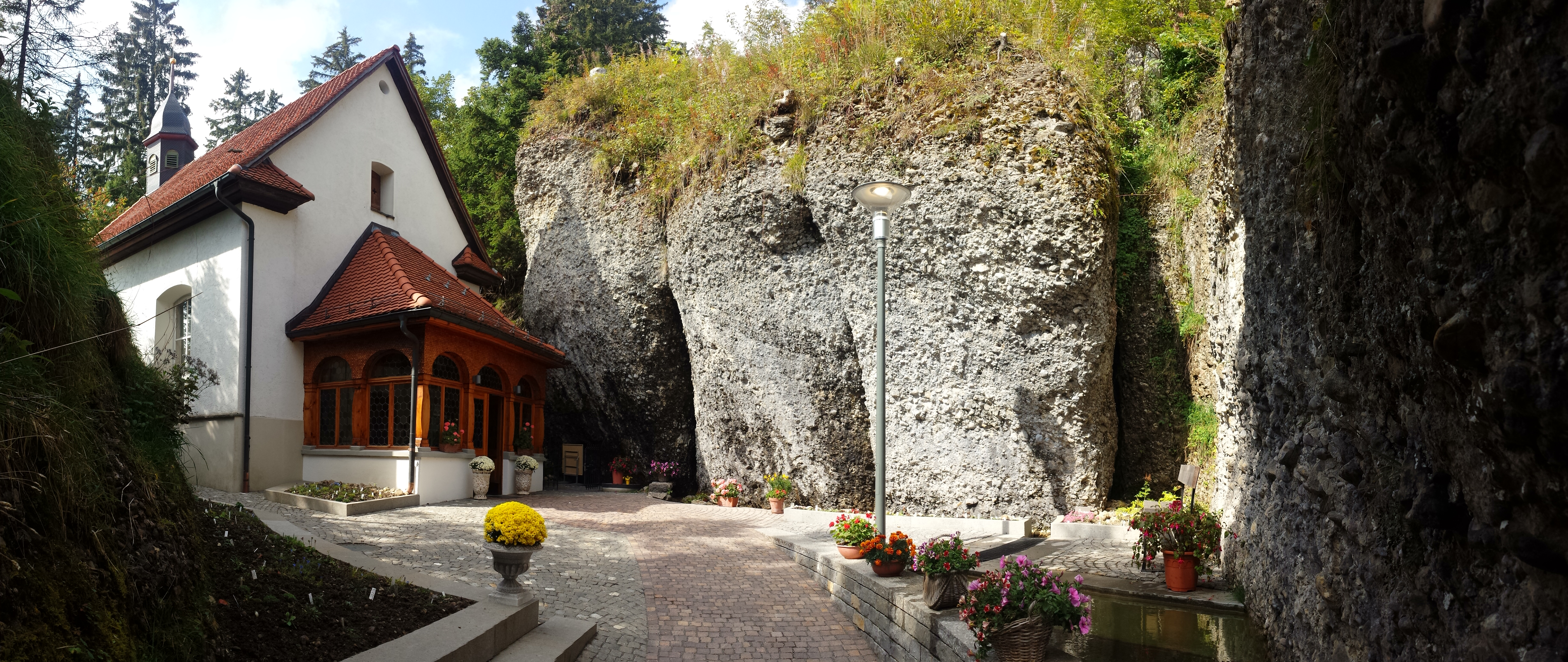 The Felsenkapelle St. Michael amongst the rocks at Rigi Kaltbad, Switzerland